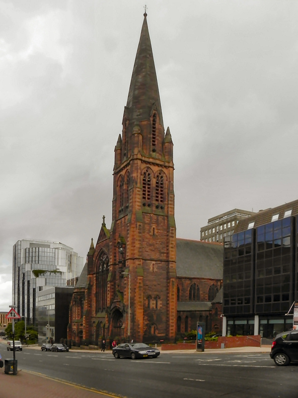 St Columba Church of Scotland, near to Glasgow, Great Britain. St Vincent Street, Glasgow.